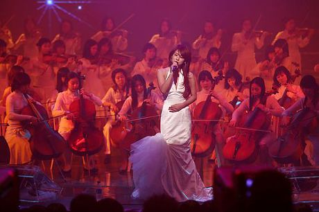 Lee Hyori at SBS Inkigayo in 2007.